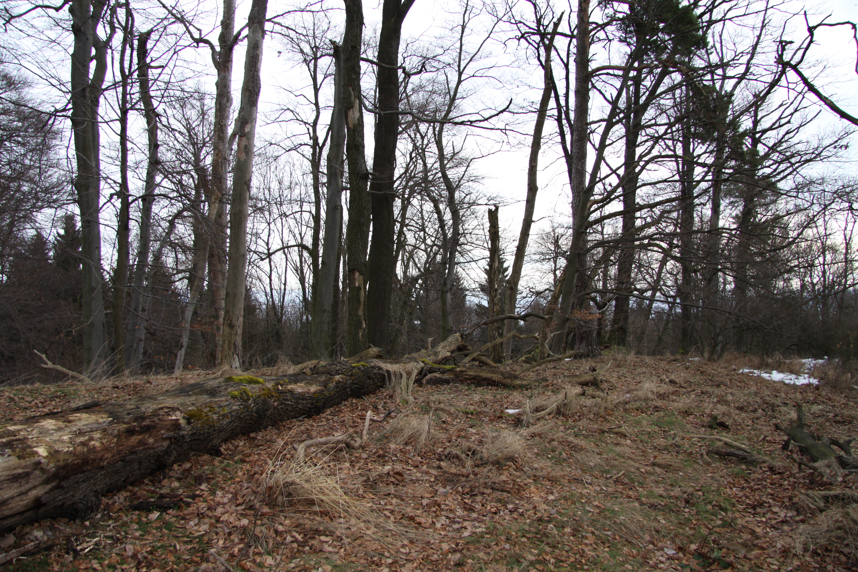 Natural reservation Skočický hrad near Skočice, Strakonice District, Czech Republic - Google Maps - Google Earth